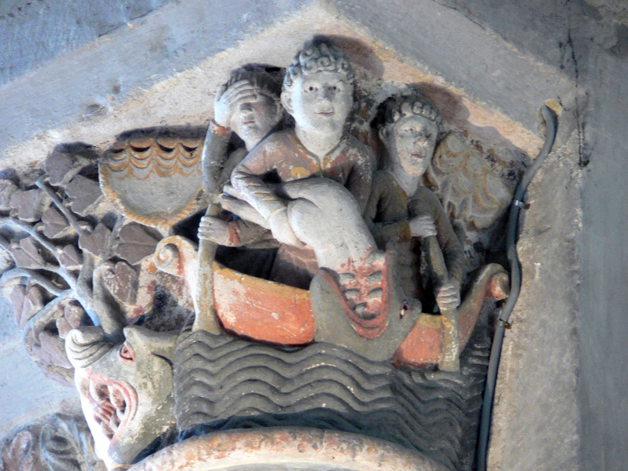 Jonah swallowed by the great fish. Sculpted capital (right side) from the nave of the abbey-church in Mozac, 12th century.